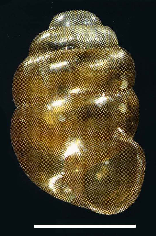 Photo of an apertural view of a shell of a holotype of Vertigo ultimathule. Locality: Sweden, Lappland, Pältsan area, Gobmevari, SSE of Pältsastugan. Scale bar is 1 mm.